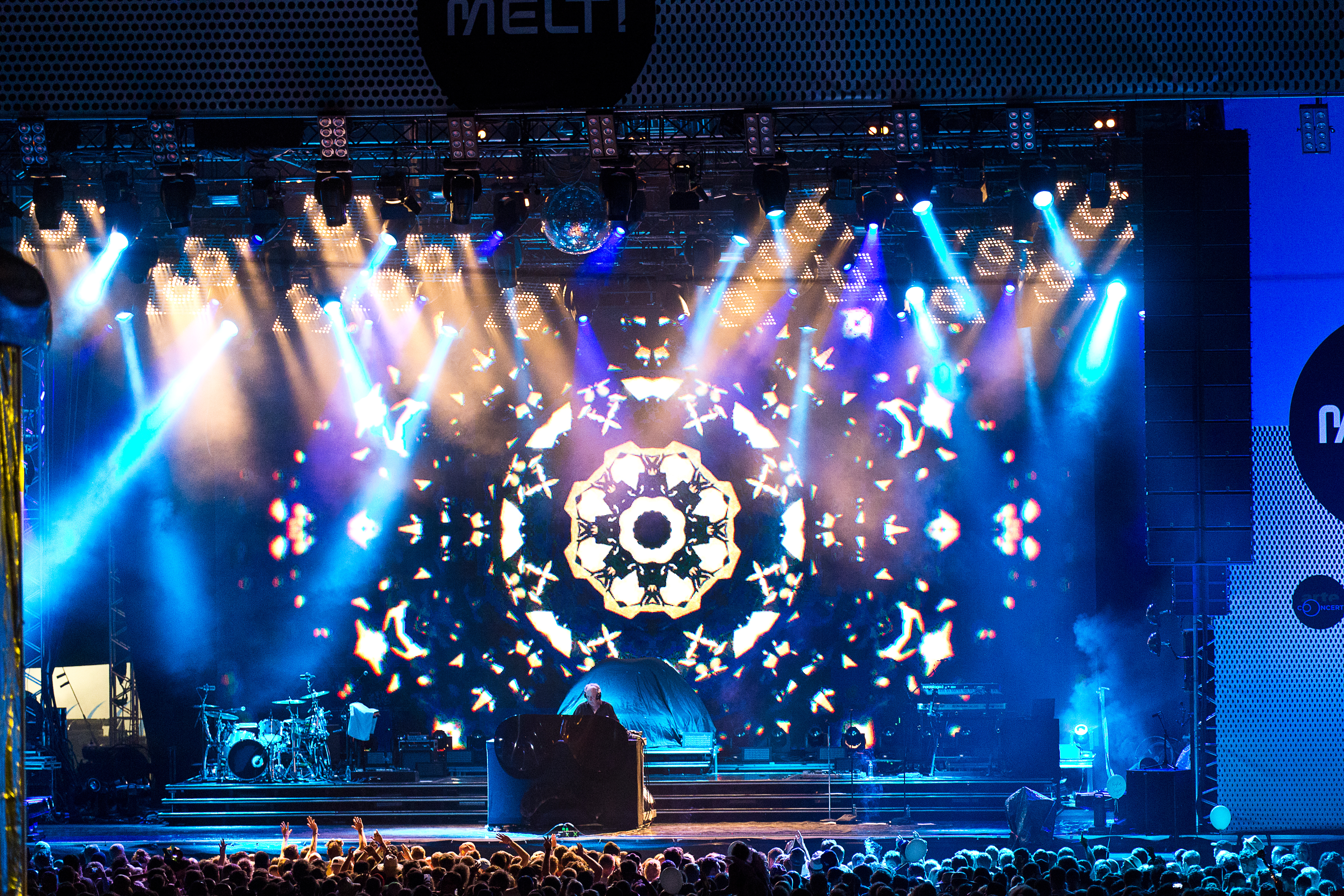 The Italian composer Giorgio Moroder at the Melt! 2015 in Ferropolis/Germany.